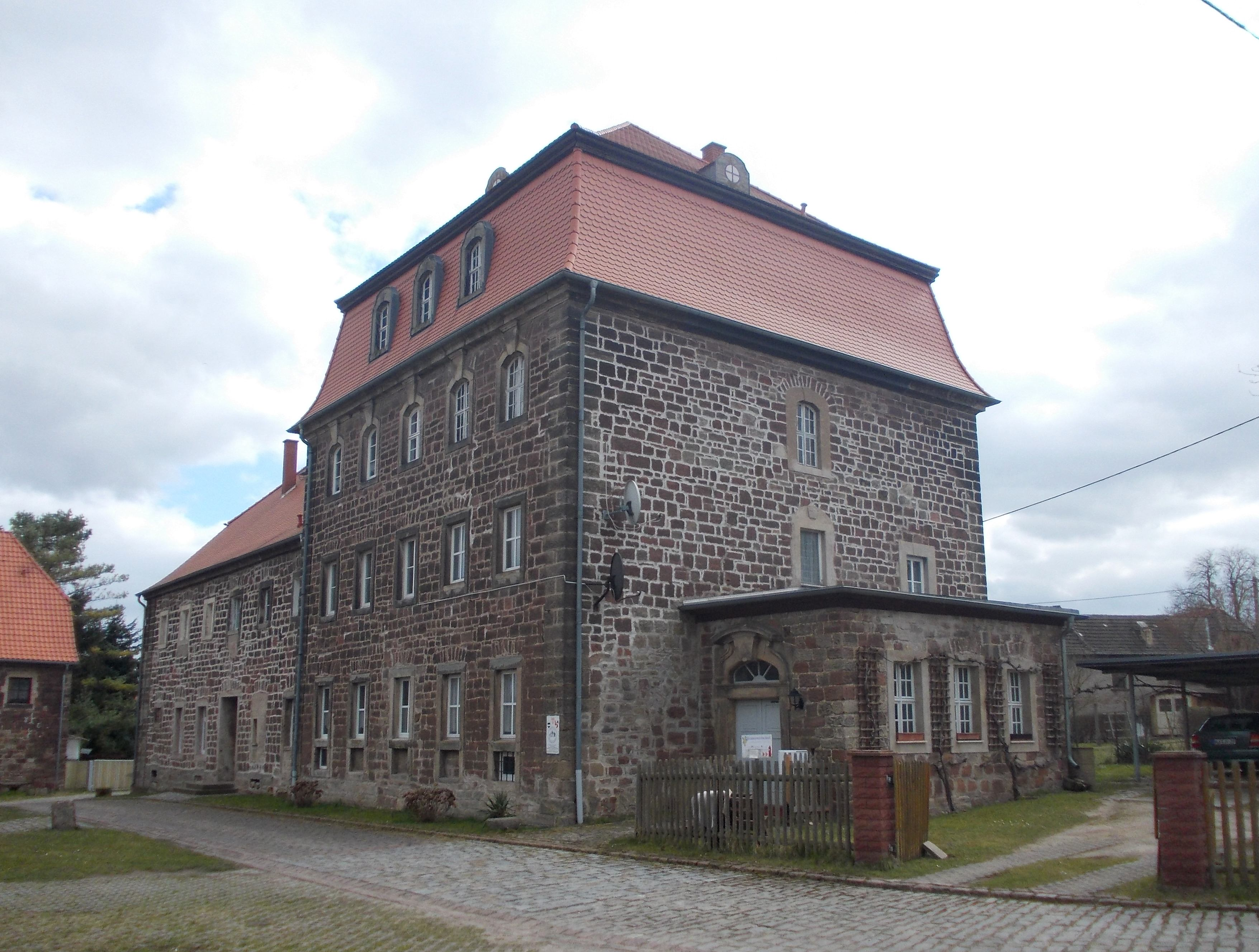 Kirchscheidungen manor (Laucha an der Untrut, district: Burgenlandkreis, Saxony-Anhalt)